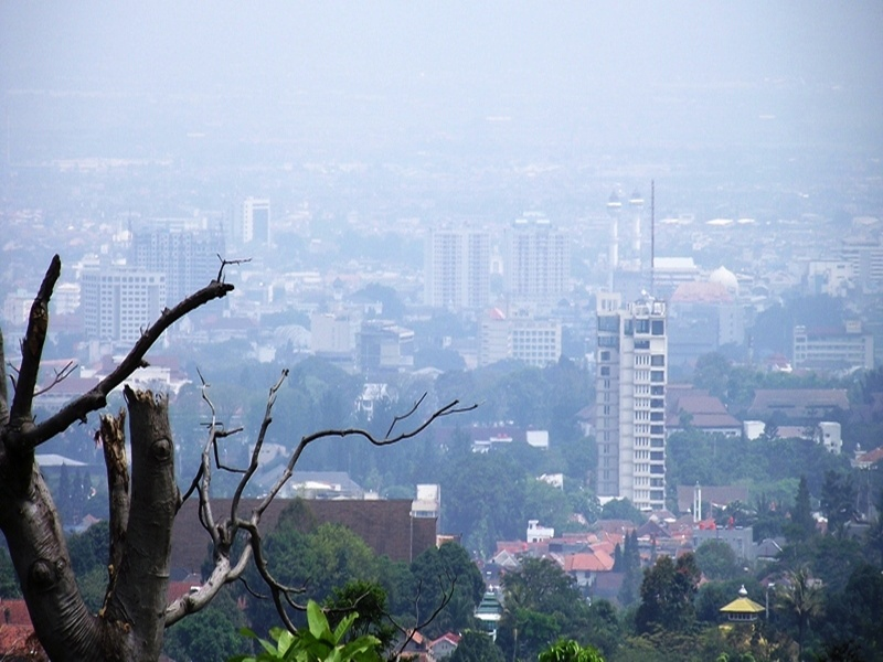 This photo was taken from the hill